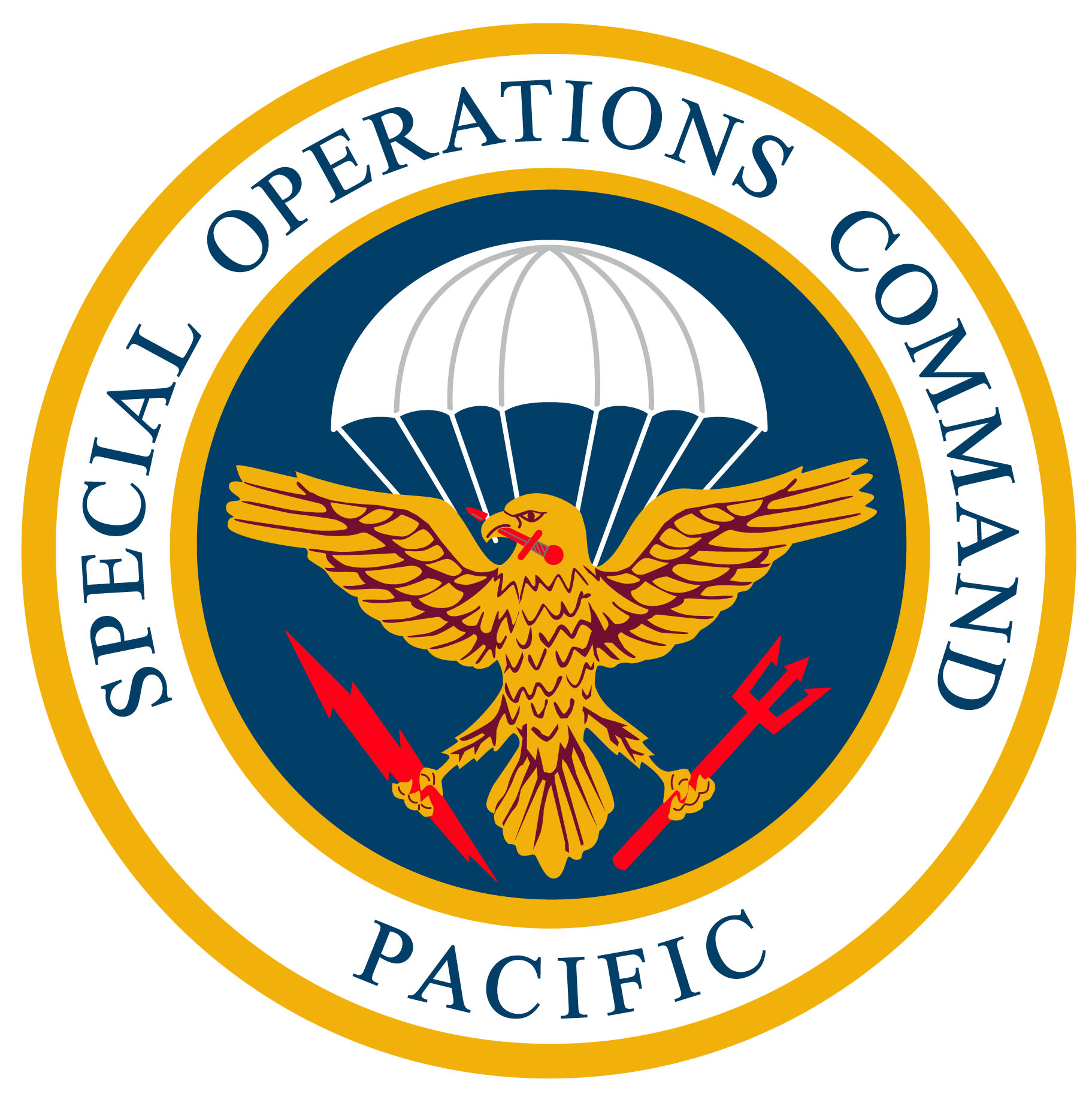 the insignia of Special Operations Command Pacific.